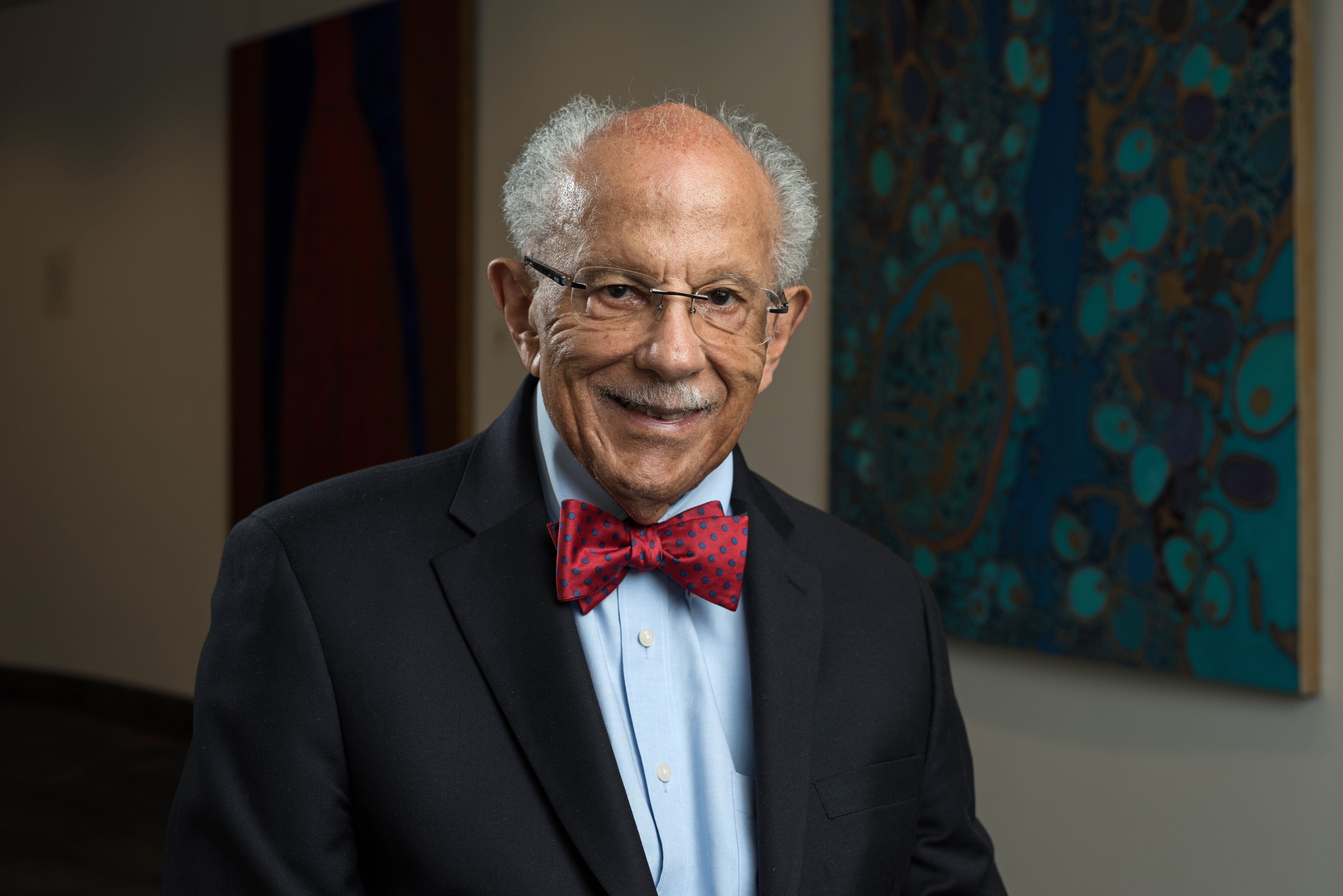 Warren Washington